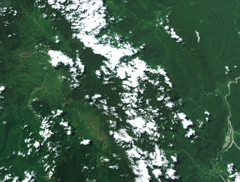 NASA World Wind image of the Star Mountains